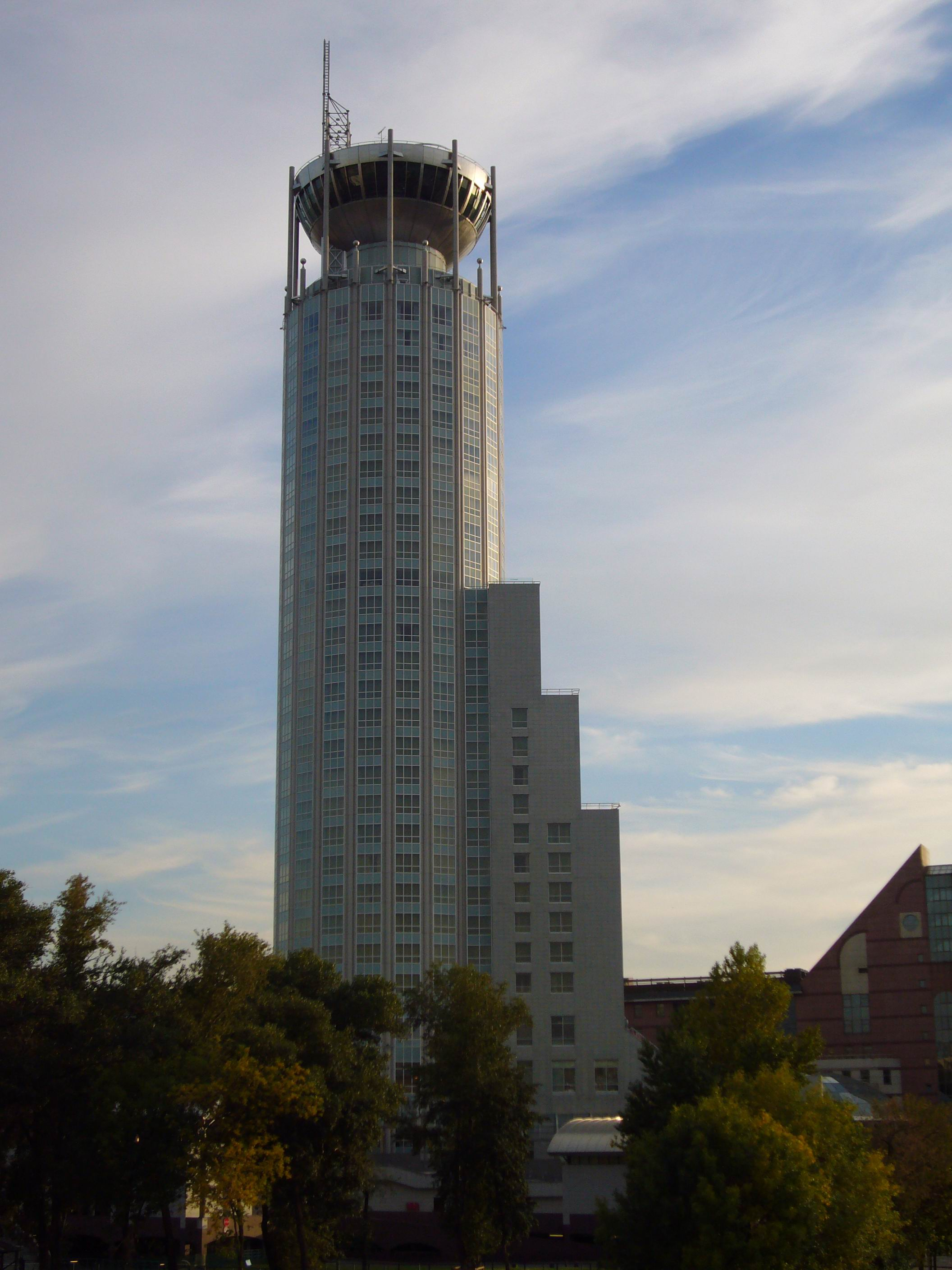 Swisshotel Krasnye Holmy